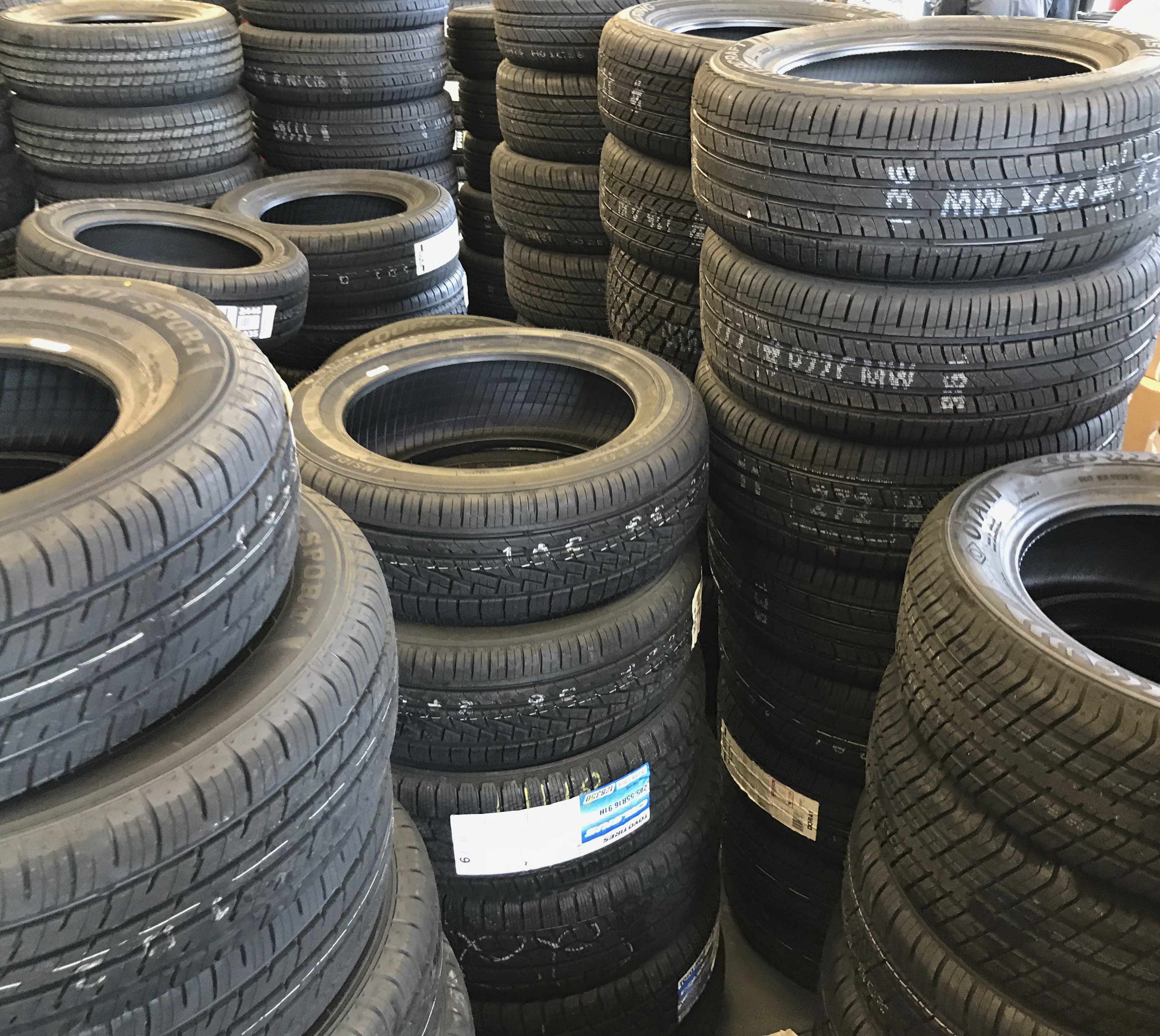 Assorted new automotive tires, showing a variety of tread patterns. The tires are in different sizes.